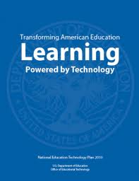 Cover of the National Educational Technology Plan developed by the US Department of Education's Office of Educational Technology in 2012